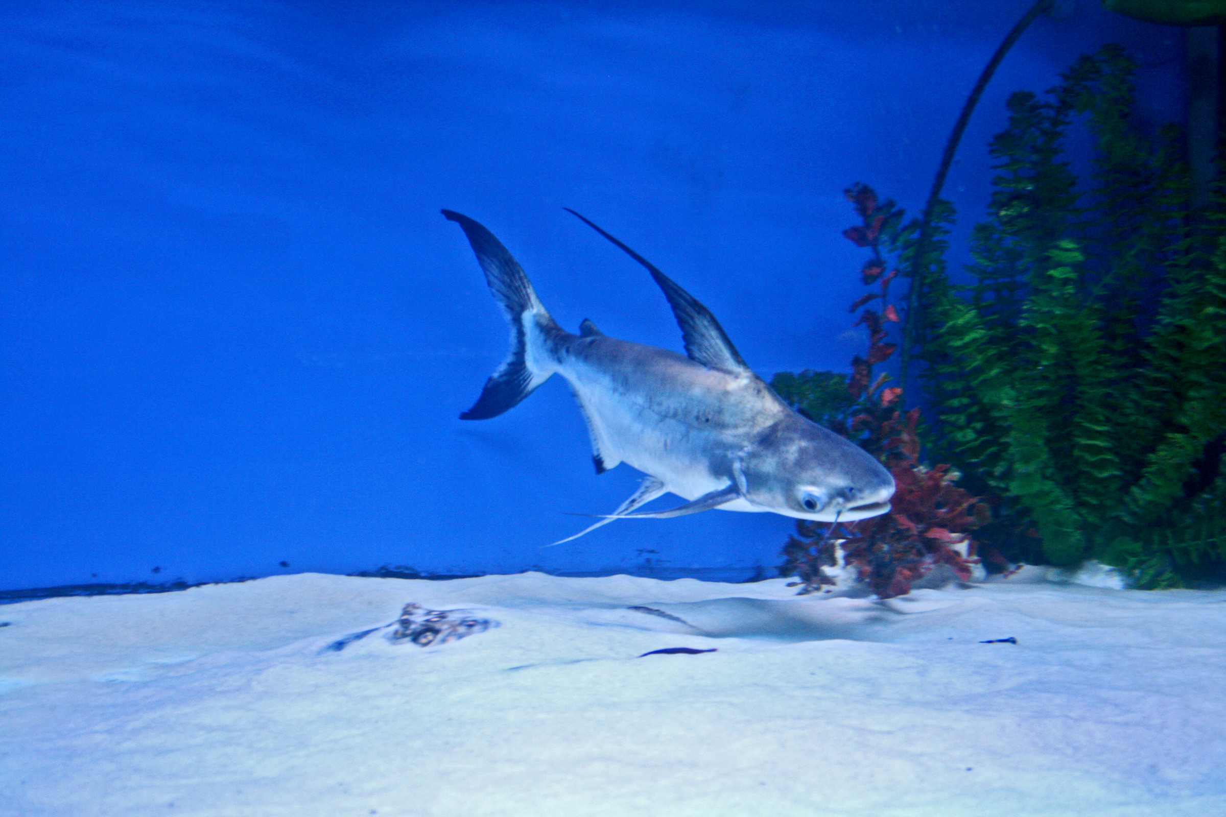 Fish Pangasius sanitwongsei, Pangasius sanitwongsei in Prague sea aquarium, Czech Republic